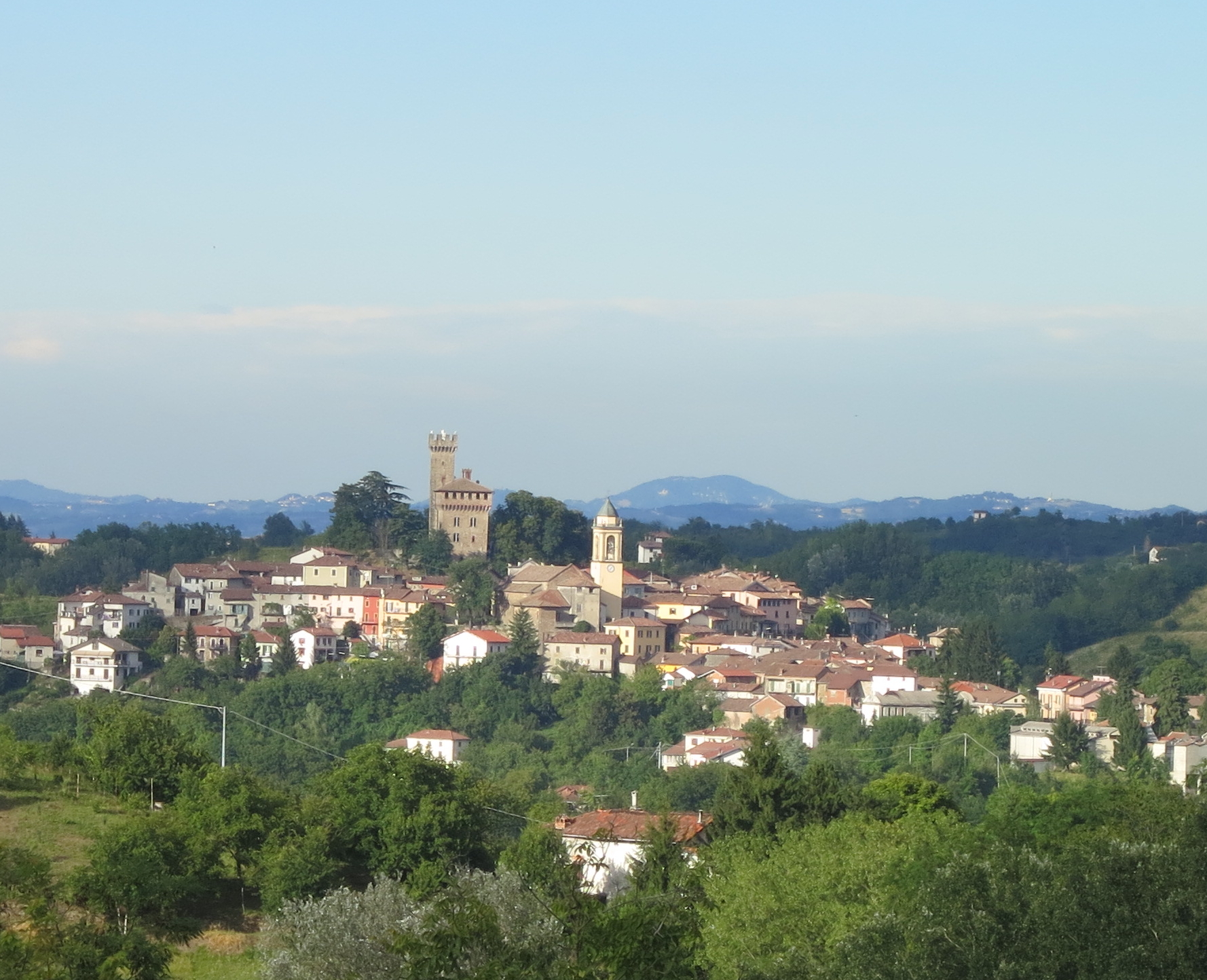 Trisobbio in Piemonte, july 2014